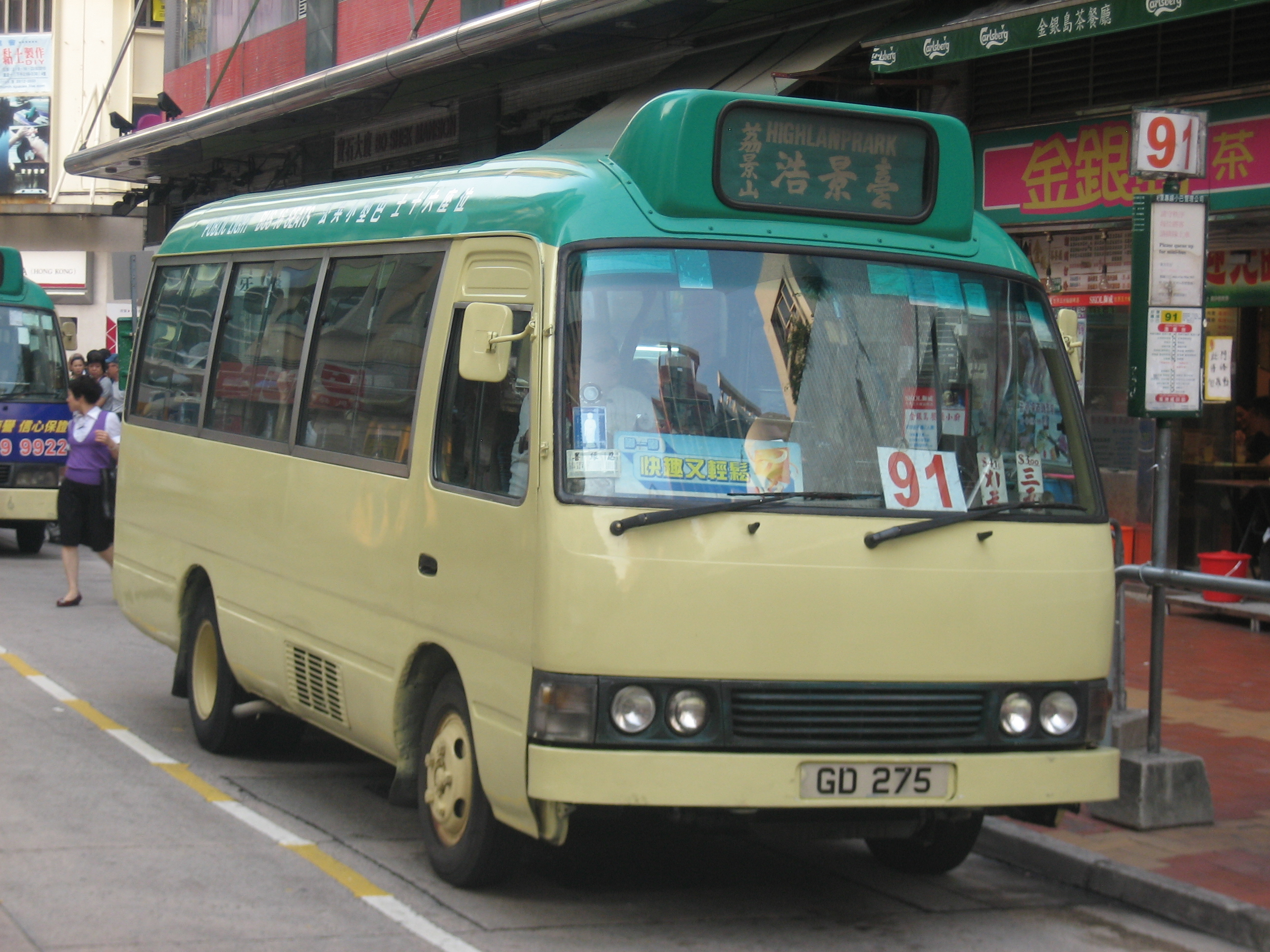 New Territories Minibus Route 91